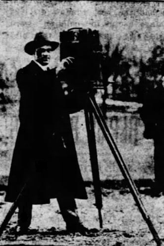 O.W. Lamb, Evening Missourian, April 20, 1917